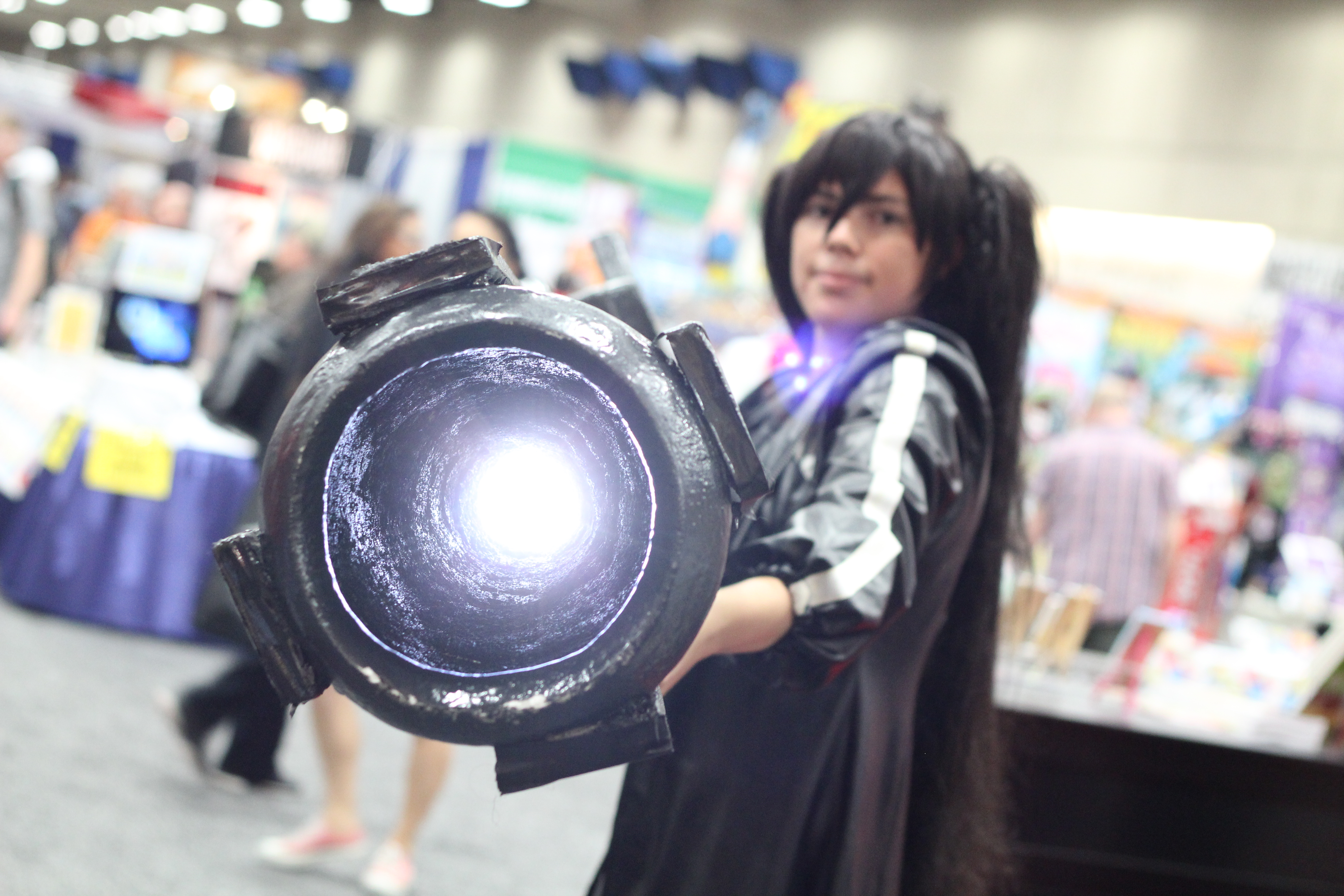 Cosplay at San Diego Comic-Con (SDCC 2012).